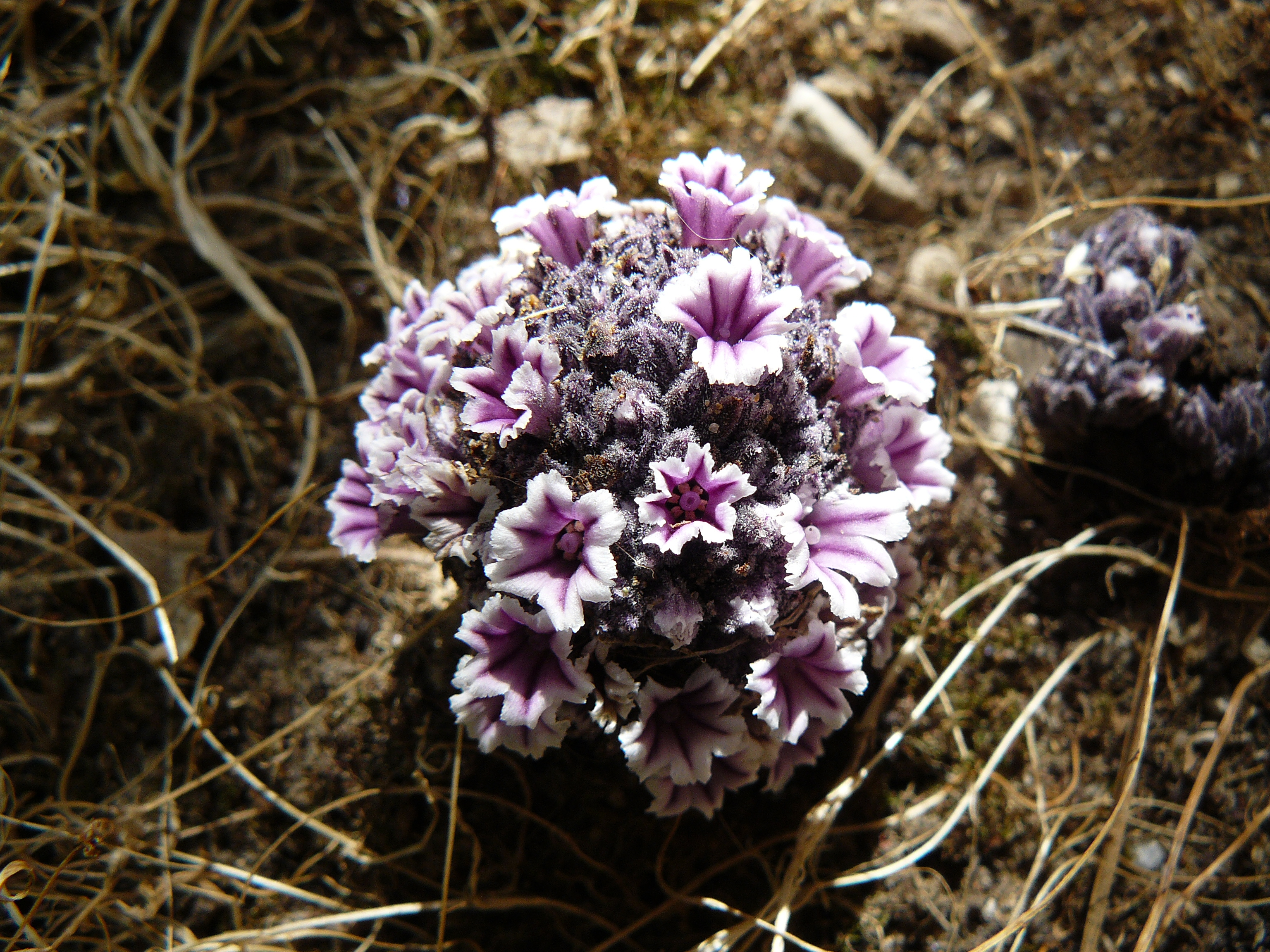 Sand Plant (Pholisma arenarium) is a parasite. It connects to its host plant through basal fibers. The most amazing aspect of this delicate beauty is that it emerges in full bloom. This tiny plant had a circumference of 3 in. and a height of one inch. It can go several years without blooming.